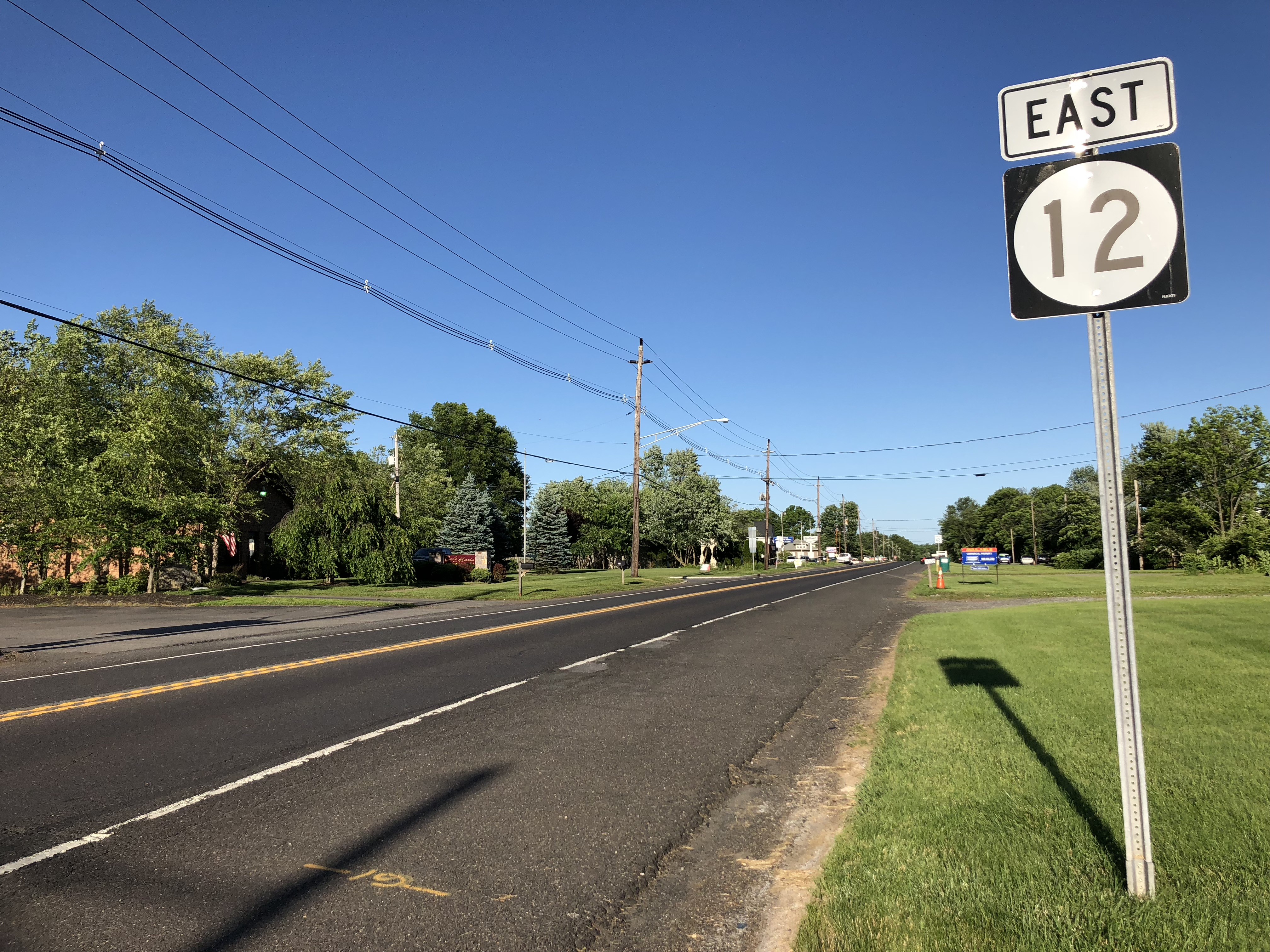 View east along New Jersey State Route 12 (Frenchtown-Flemington Road) east west of Hunterdon County Route 519 (Kingwood Road) in Kingwood Township, Hunterdon County, New Jersey